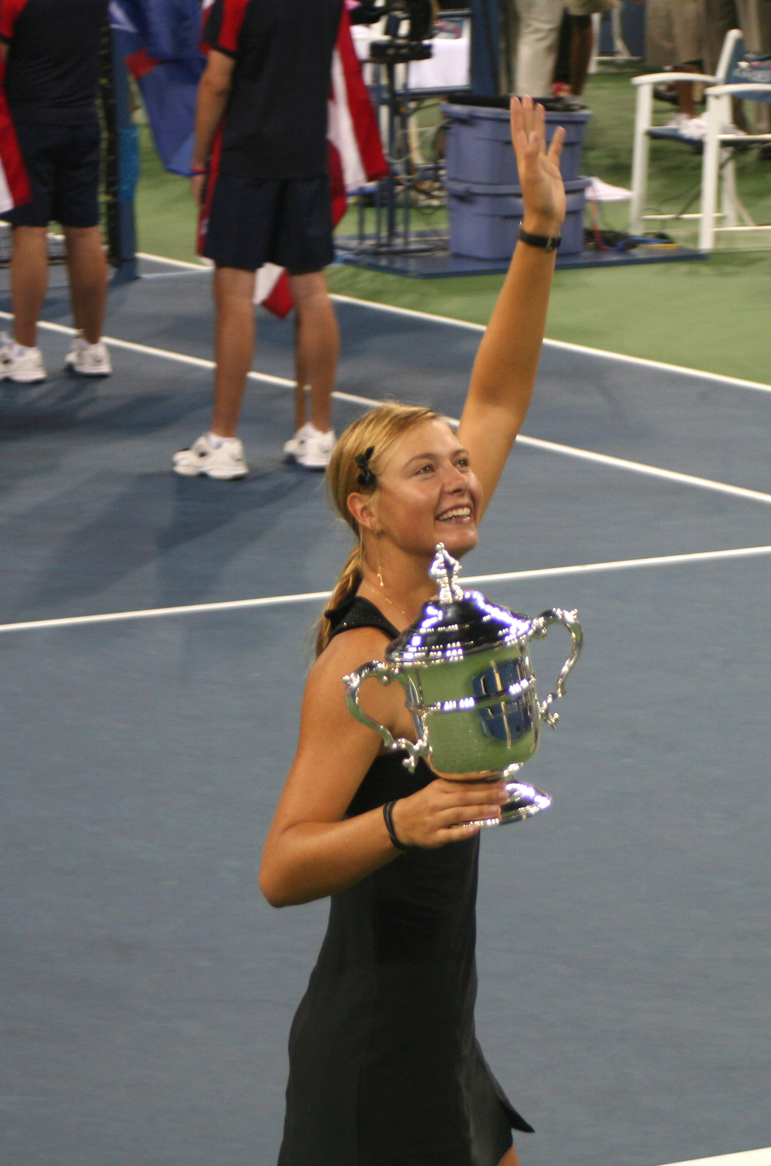 Maria Sharapova just after winning the US Open. September 9, 2006